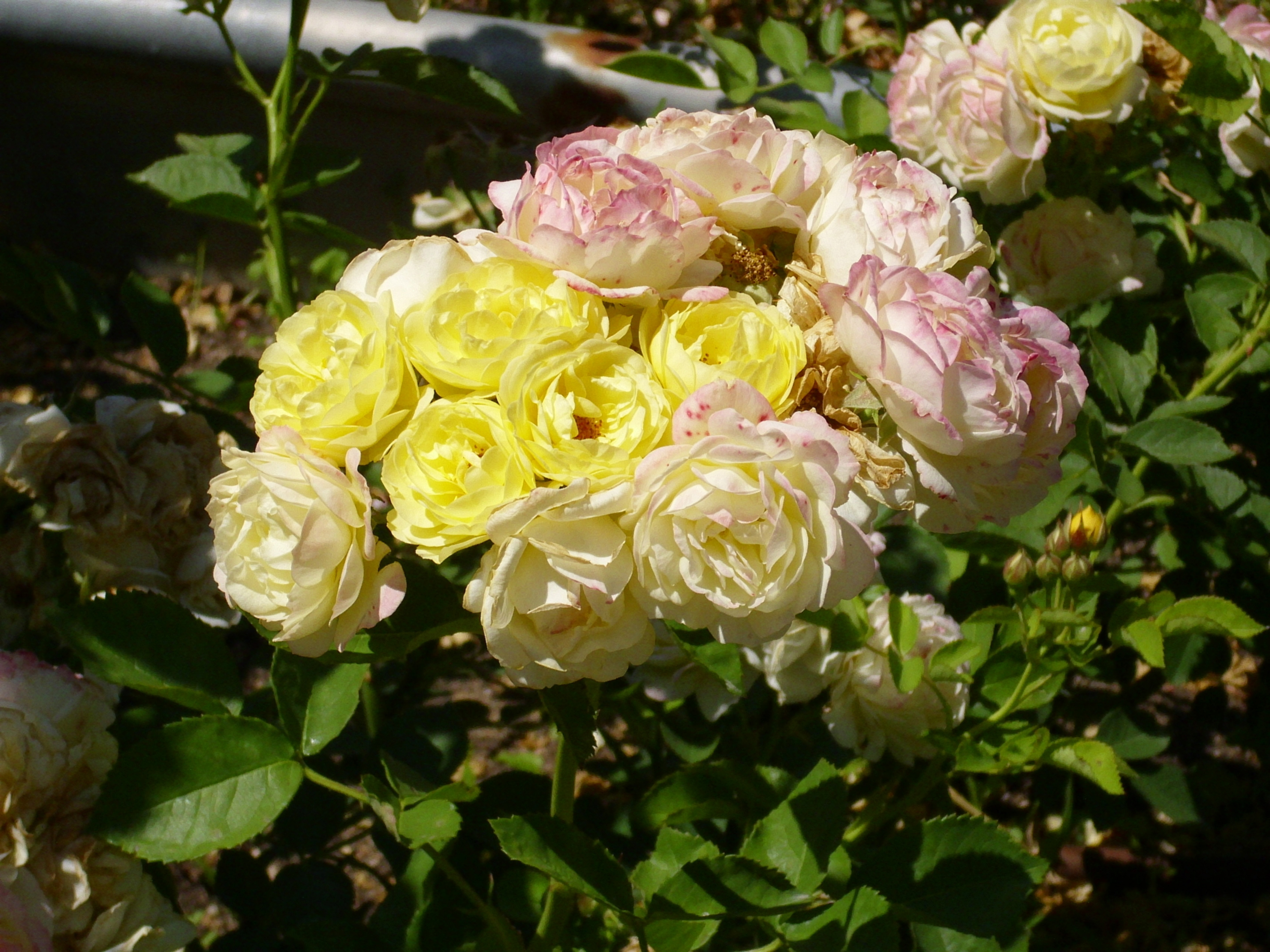 Rosa 'Comtesse du Barry', Verschuren 1993, in the "Rosaleda del Parque del Oeste" in Madrid. Identified by sign.